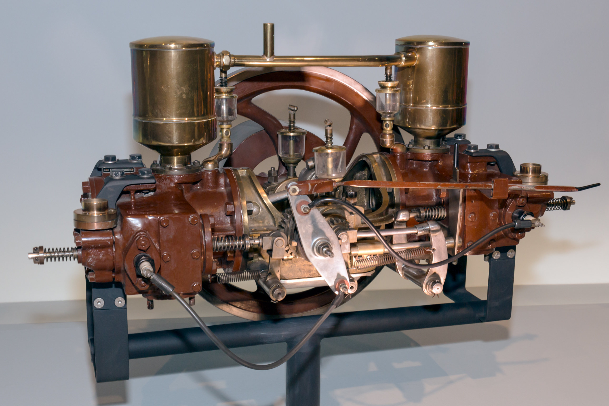 1899 Benz 5 hp 2-cylinder engine